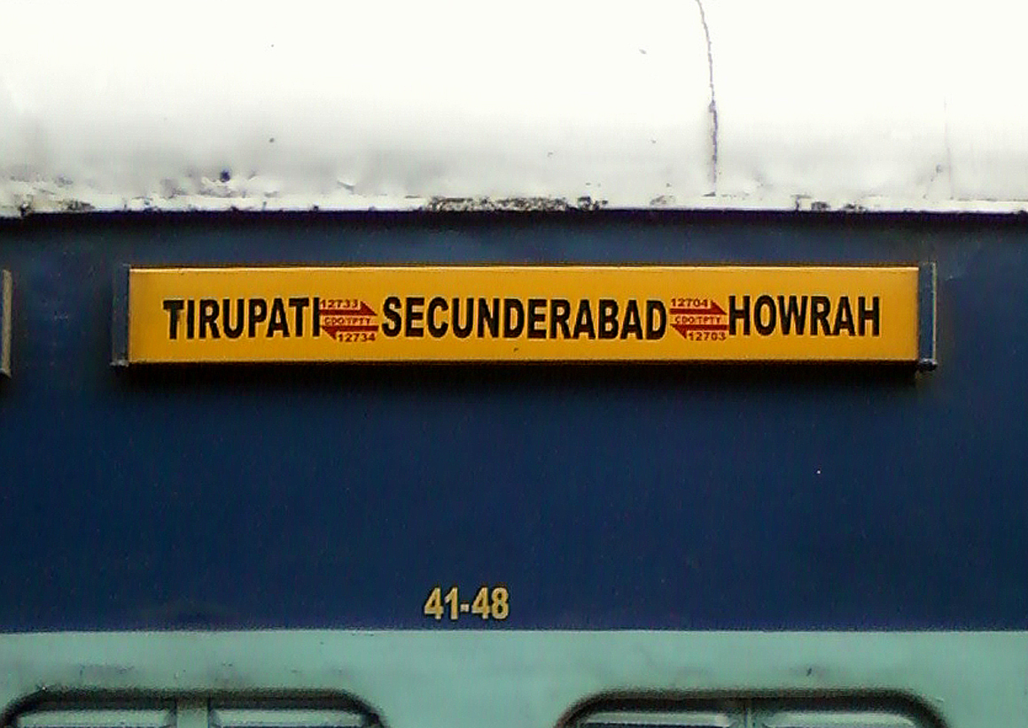 (12733-34 Narayanadri -12703-04 Falaknuma) Express at Secunderabad Train Station